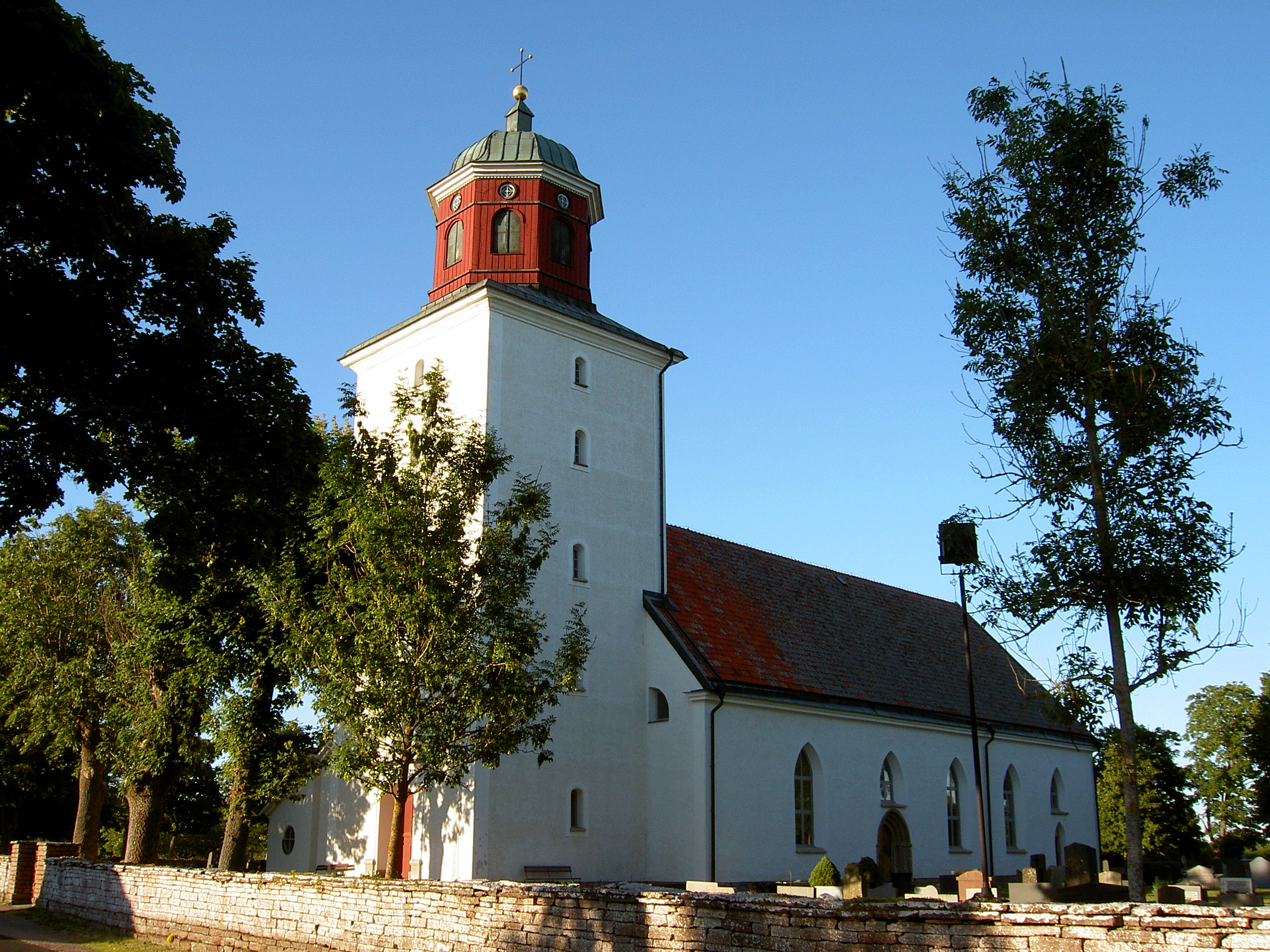 Church of Torslunda, Öland, Sweden